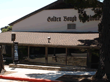 Carmel's historic Golden Bough Playhouse, owned and operated by Pacific Repertory Theatre, the only year-round professional theatre on the Central California Coast.